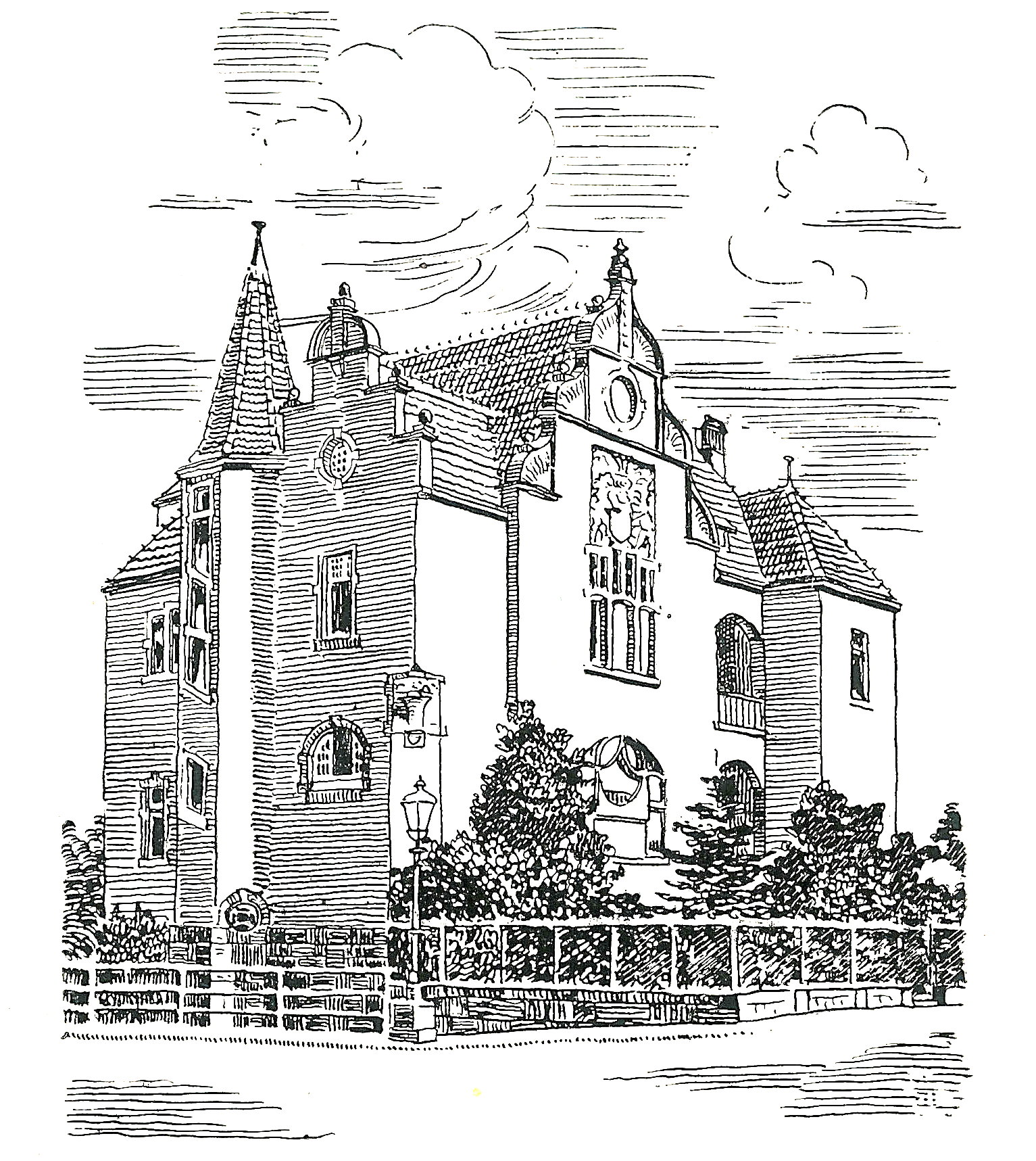 Former house of student fraternity Corps Hasso-Borussia Freiburg in Freiburg/Germany, Bismarckstrasse 19